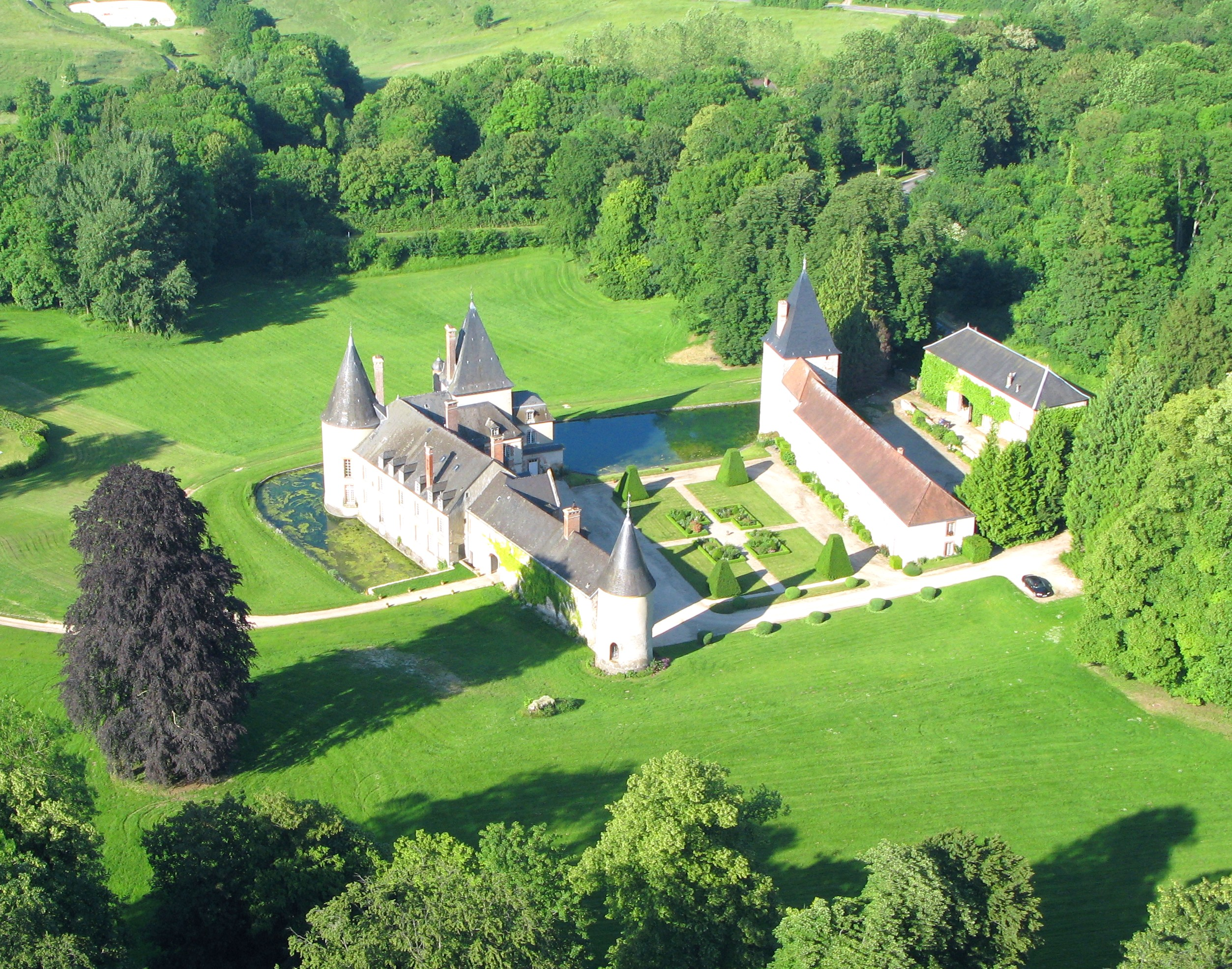 Château de Brugny-Vaudancourt. Aerial view (private property, not accessible to the public) .